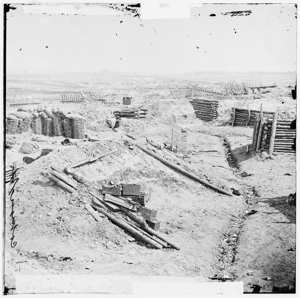 Petersburg, Virginia. Interior view of Confederate works near Elliott's salient